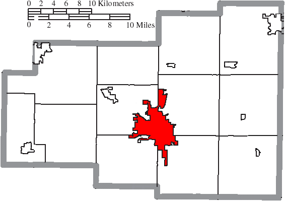 Map of the municipal and township boundaries of Allen County, Ohio, United States, as of the 2000 census, with the location of the city of Lima highlighted. Township borders are shown only in unincorporated areas in order to differentiate incorporated and unincorporated areas more clearly.